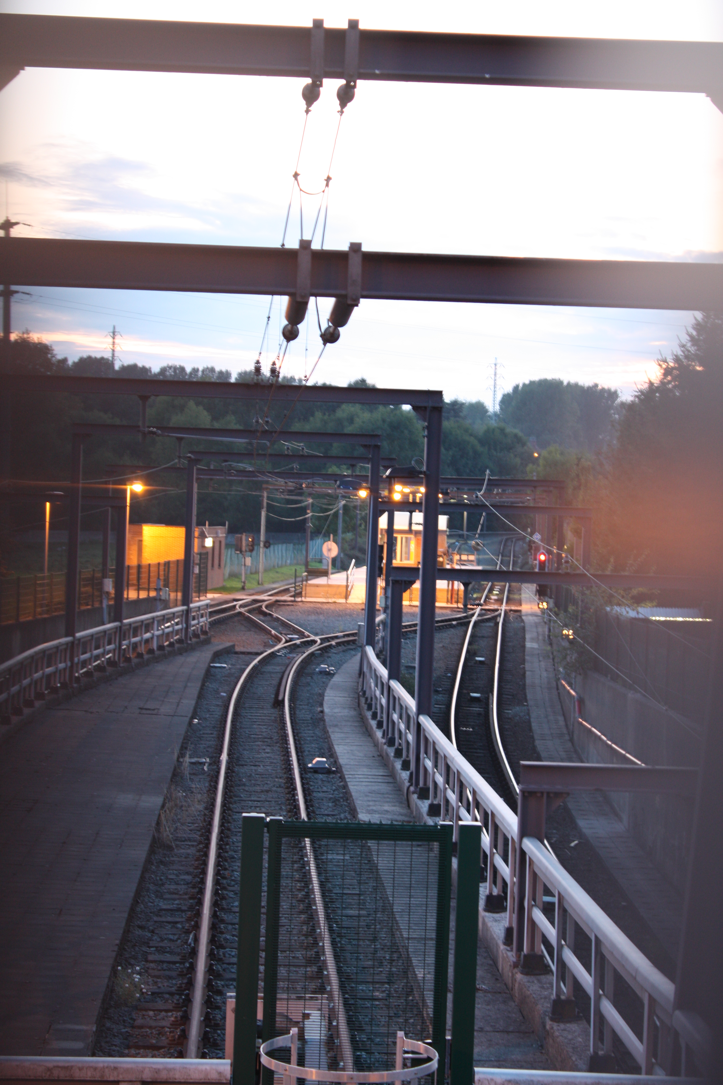 Pétria station Shot on 2009-09-19 on a tour of Charleroi's subway, kindly hosted by TEC-Charleroi.